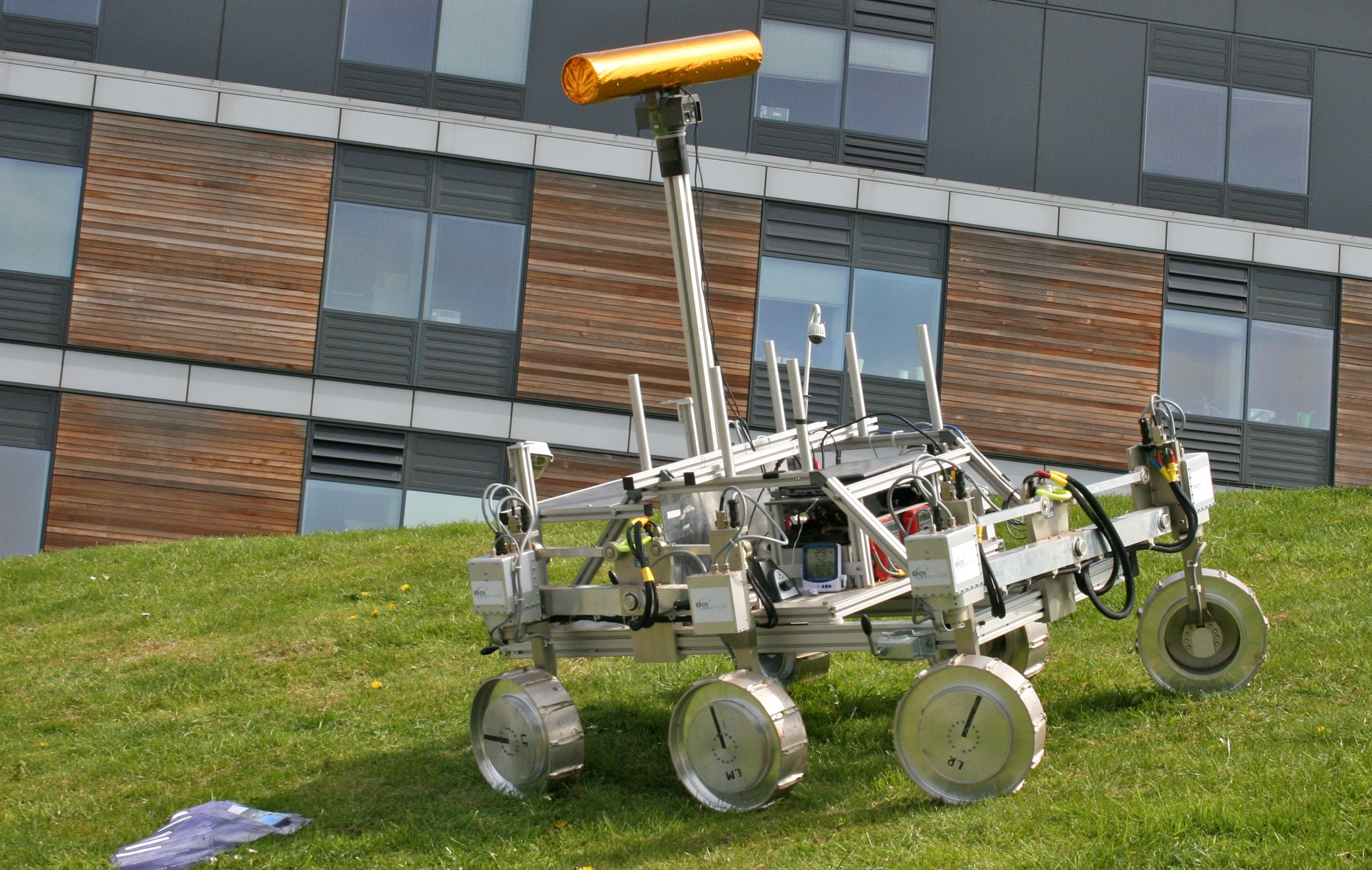 Original caption: An ExoMars prototype rover at the Royal Astronomical Society National Annual Meeting 2009 in Hatfield, England.